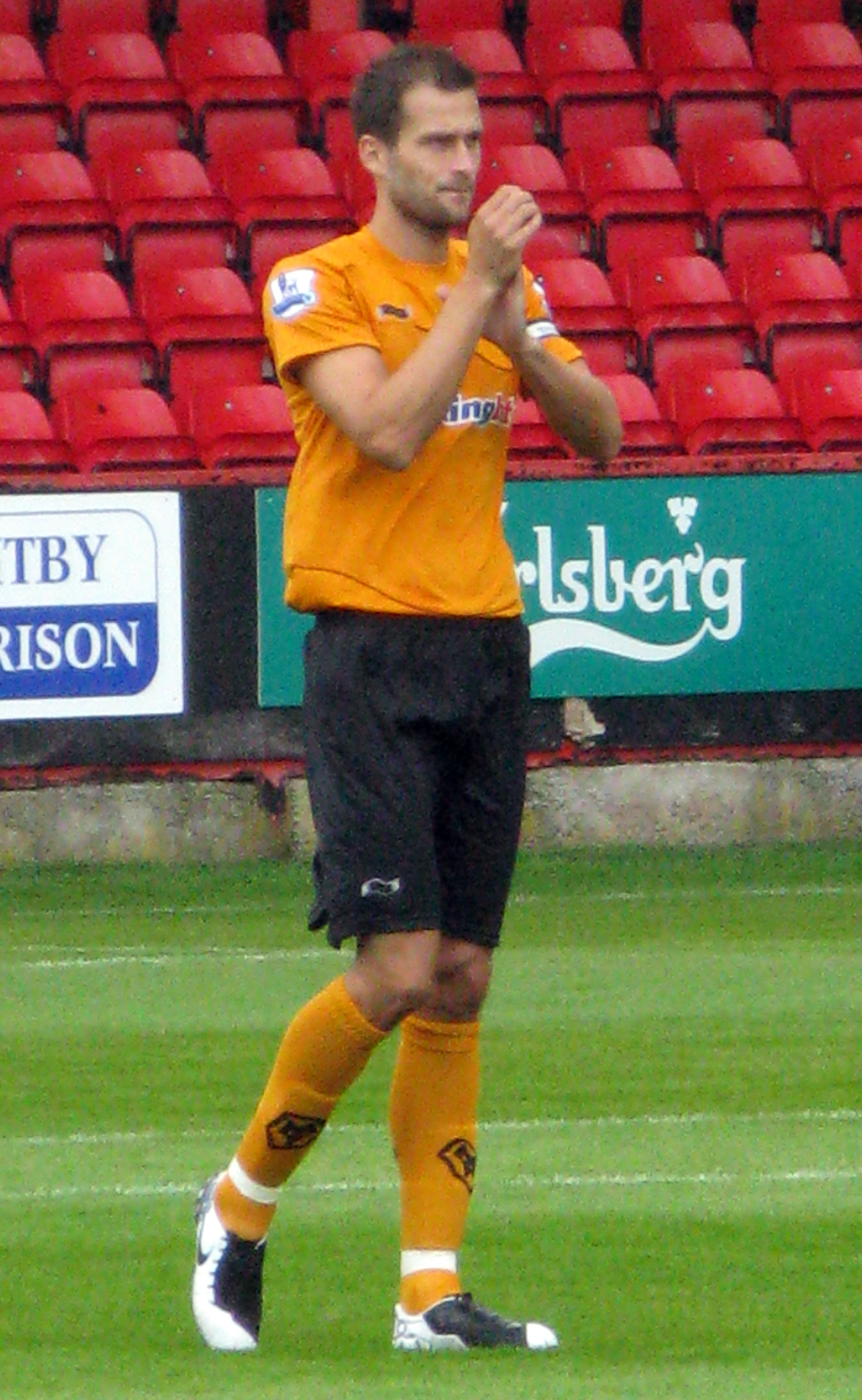 Roger Johnson playing for Wolves in the Pre-season friendly against Crewe Alexandra